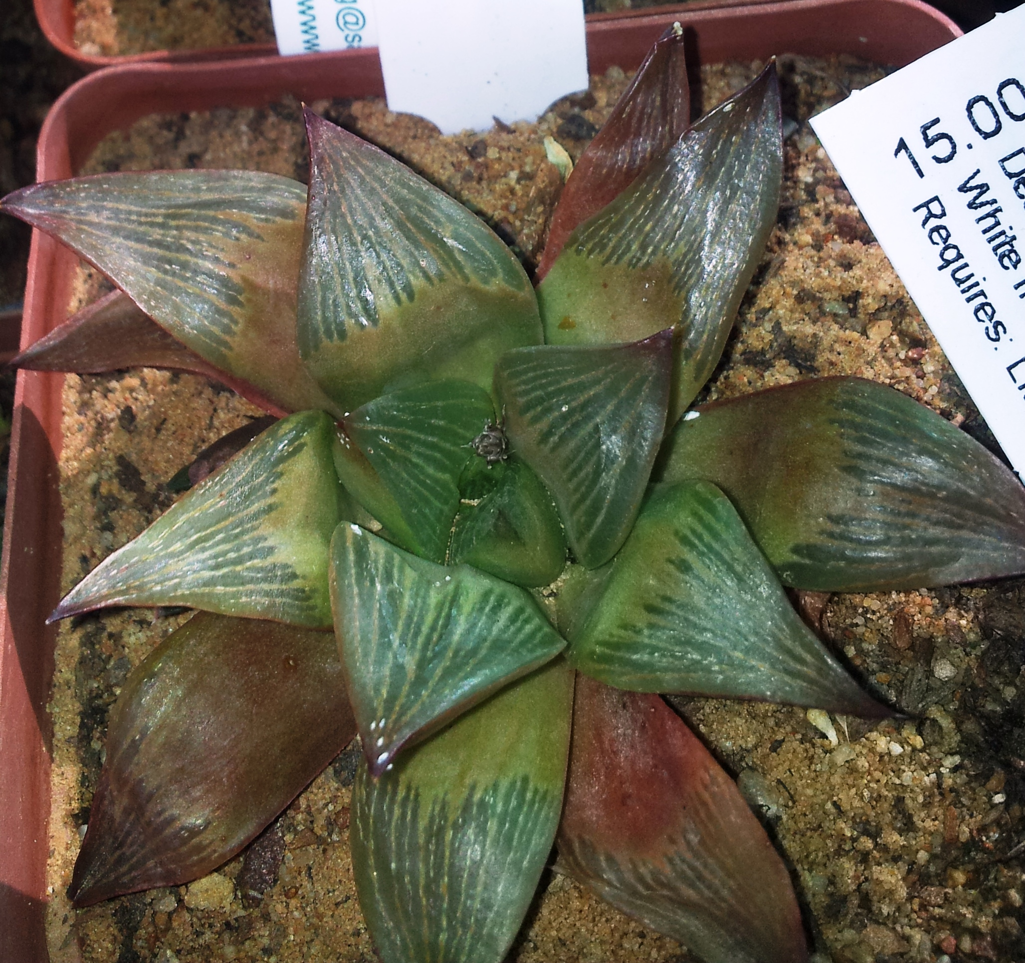 Haworthia retusa in cultivation